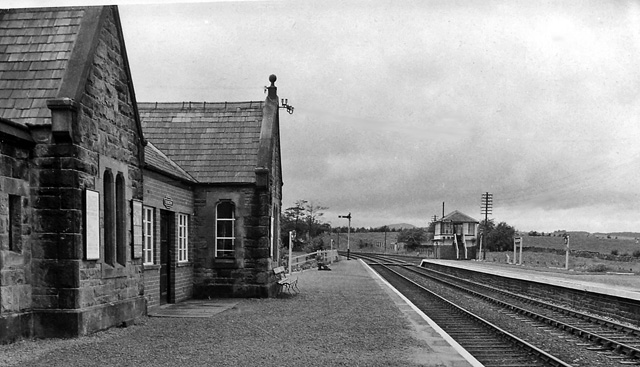 Blencow Station. View westward, towards Keswick and Workington; ex-LNW Penrith - Keswick - Cockermouth - Workington line. Station and line closed 6/3/72.